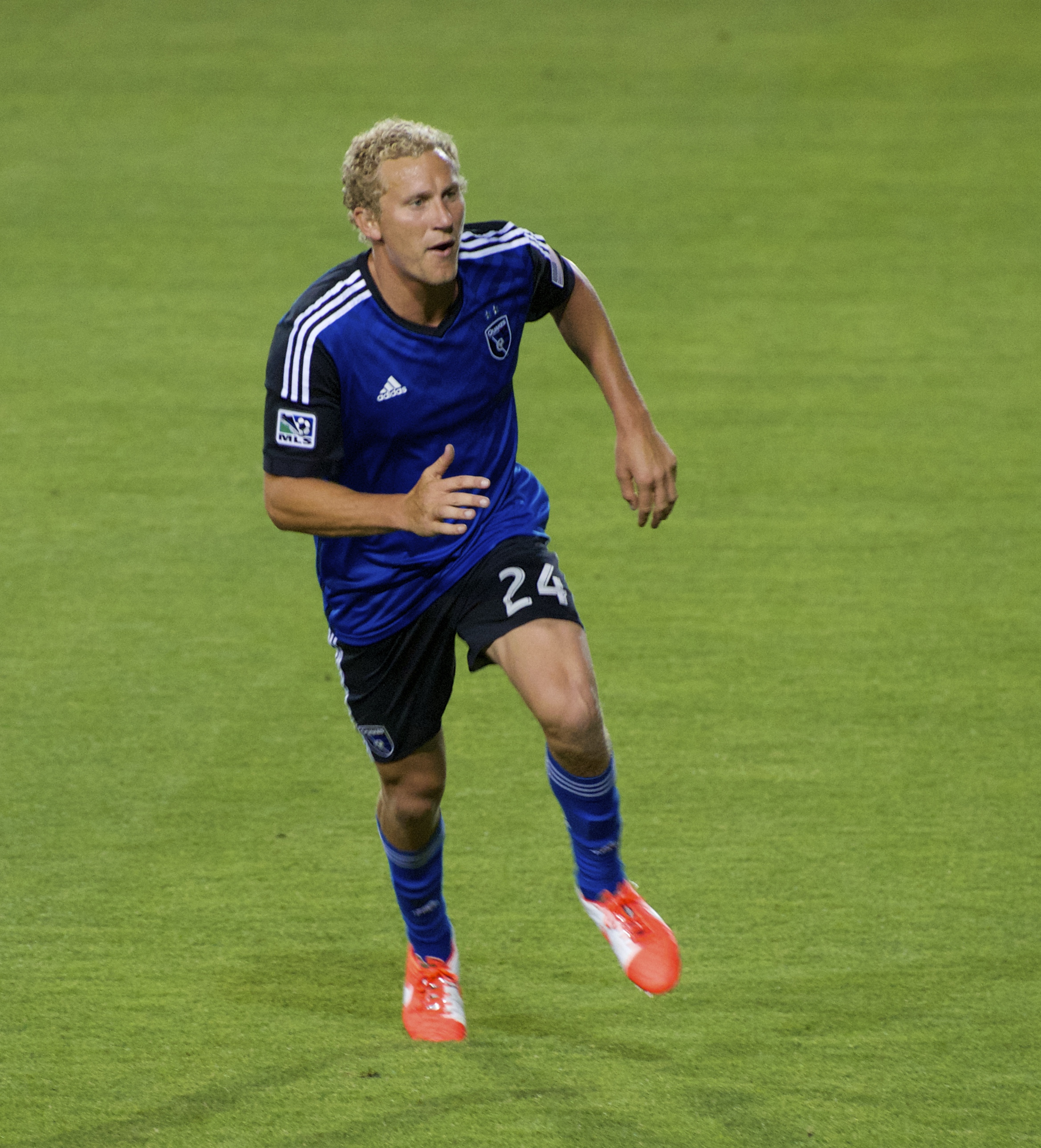 Steven Lenhart, Houston Dynamo vs San Jose Earthquakes, Buck Shaw Stadium, 25 May 2014